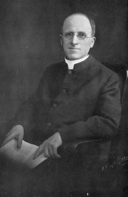 Portrait photograph of the Very Rev Albert Power, SJ.